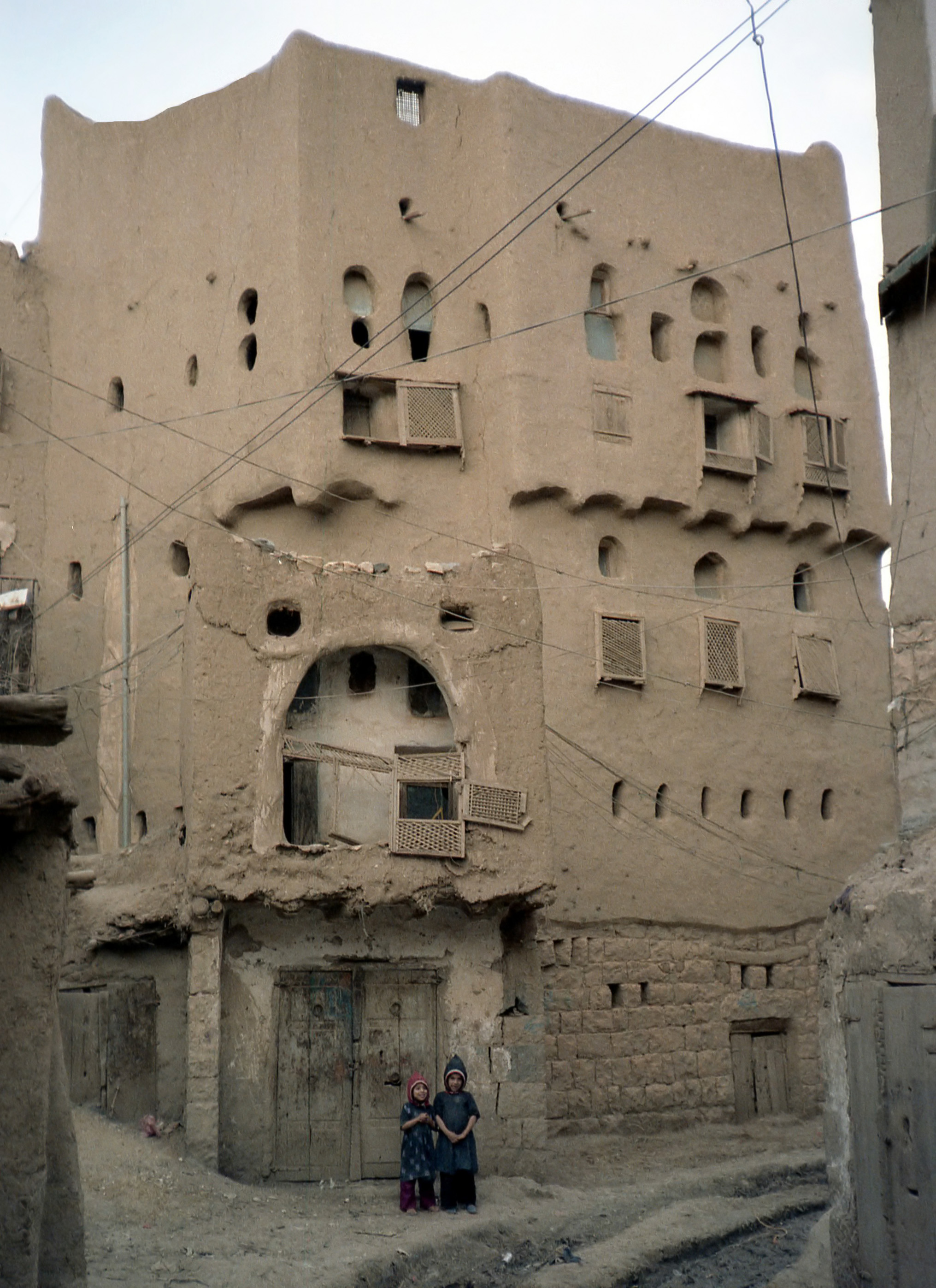 Mud house in Amran, Yemen (1986).